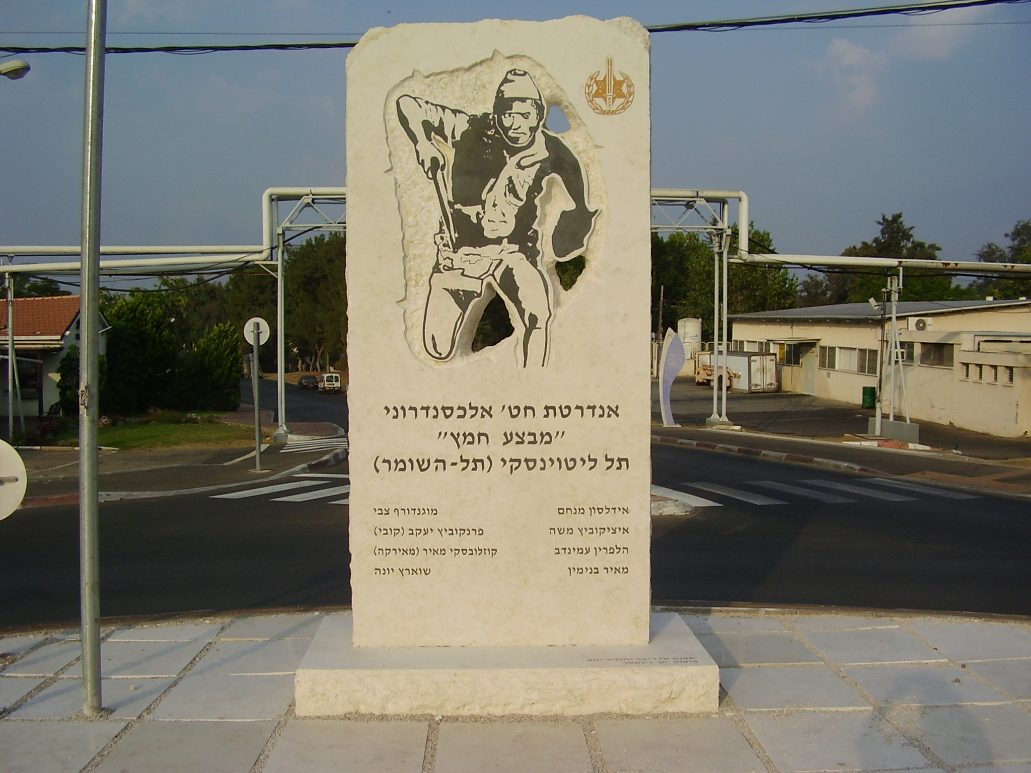 alexandroni brigade memorial in tel hashomer hospital,israel אנדרטת חטיבת אלכסנדרוני בתל השומר לחיילי החטיבה שנפלו בכיבוש המקום והסביבה ב"מבצע חמץ" במלחמת העצמאות.